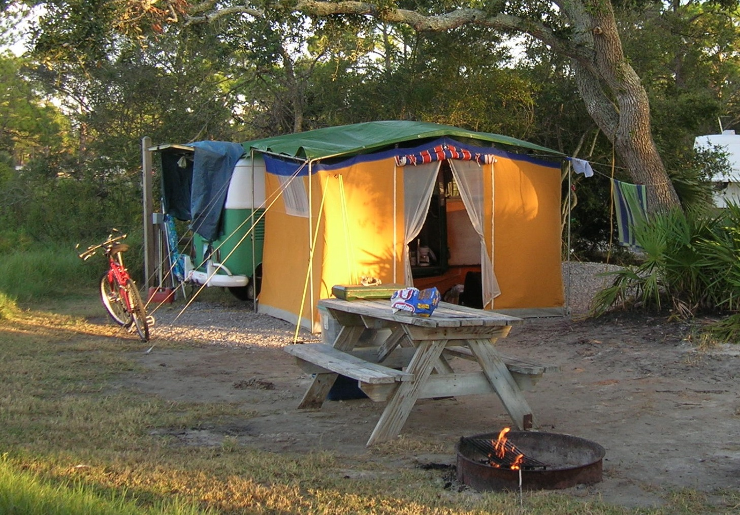 A freestanding Westfalia tent from the baywindow (1968-79) years. In this photo, the tent is being used with a 1965 bus.